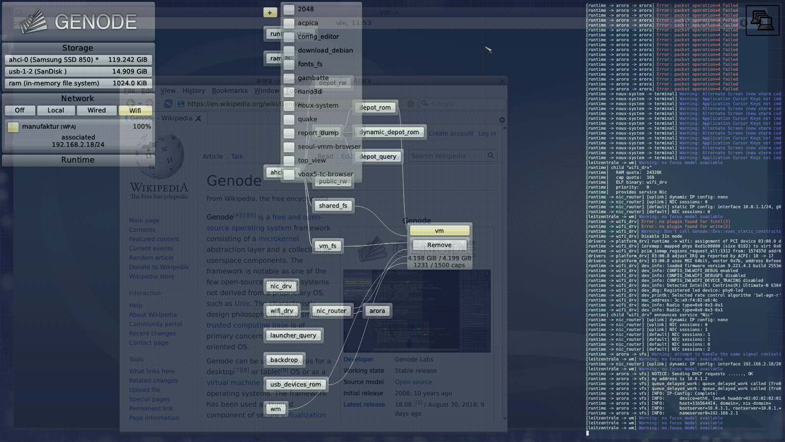 Genode Sculpt screenshot